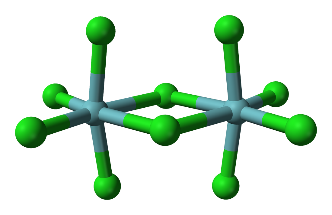 Ball-and-stick model of the niobium pentachloride molecule, Nb2Cl10. X-ray crystallographic data from Acta Cryst. (1991). C47, 2435-2437.